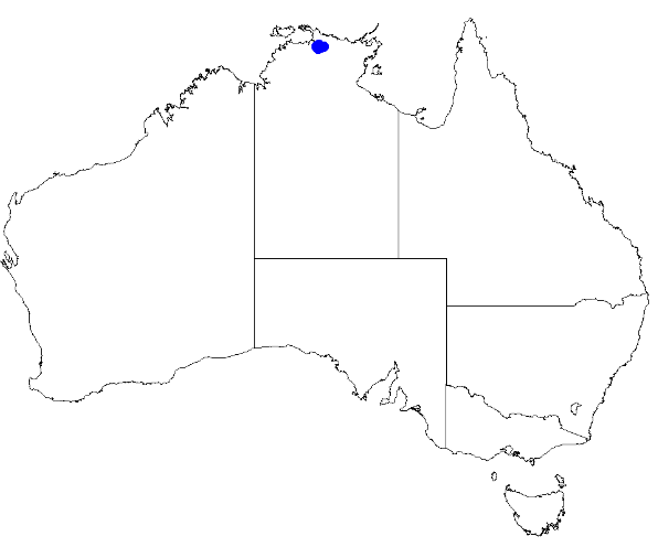 Boronia prolixa occurrence data downloaded from Australasian Virtual Herbarium 10 April 2019 using This download included all the environmental overlay fields and ALA's data checking fields including "cultivated / escapee", "outside expert range for species", "latitude is negated", "coordinates are transposed", "taxon misidentified", "habitat incorrect for species", and "suspected outlier" (711 fields). Deleting occurrences for which any of the above were true, 46 specimens with coordinates were deleted.